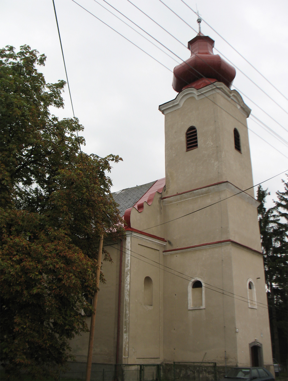 Church of Vyškovce nad Ipľom